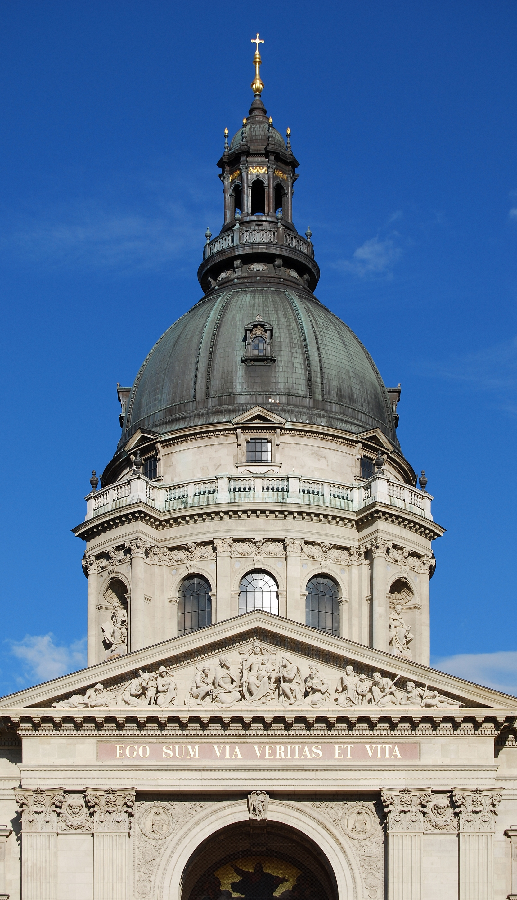 The dome of St. Stephen's Basilica, Budapest.